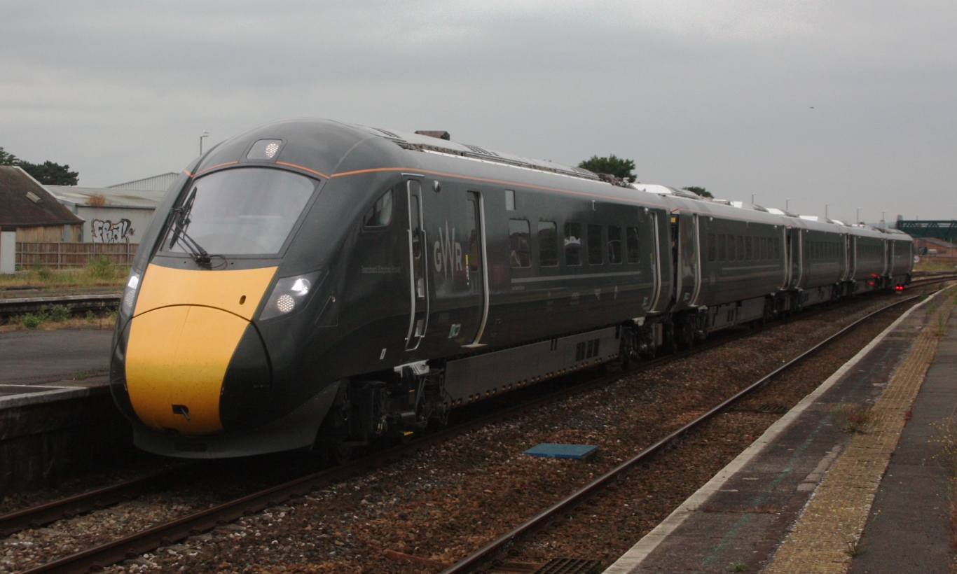 Great Western Railway InterCity Express Train 800004 arrives at Taunton. It is returning to London Paddington after a test run to Tiverton.